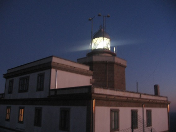 camino de santiago, Lighthouse Cape Finisterre